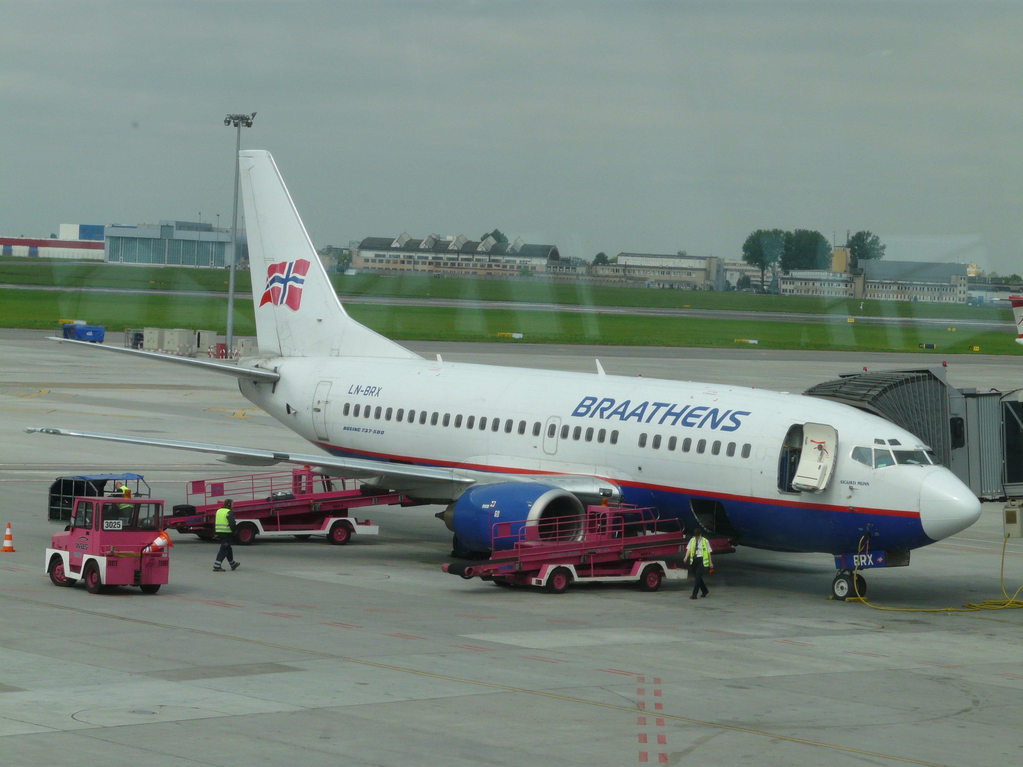 registration (tail number): LN-BRX